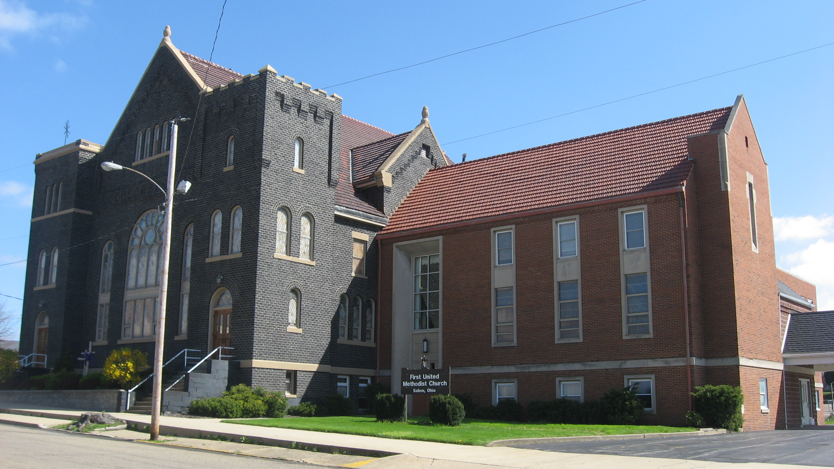 Front of First United Methodist Church, located at 244 S. Broadway in Salem, Ohio, United States. Built in 1910, it is listed on the National Register of Historic Places.